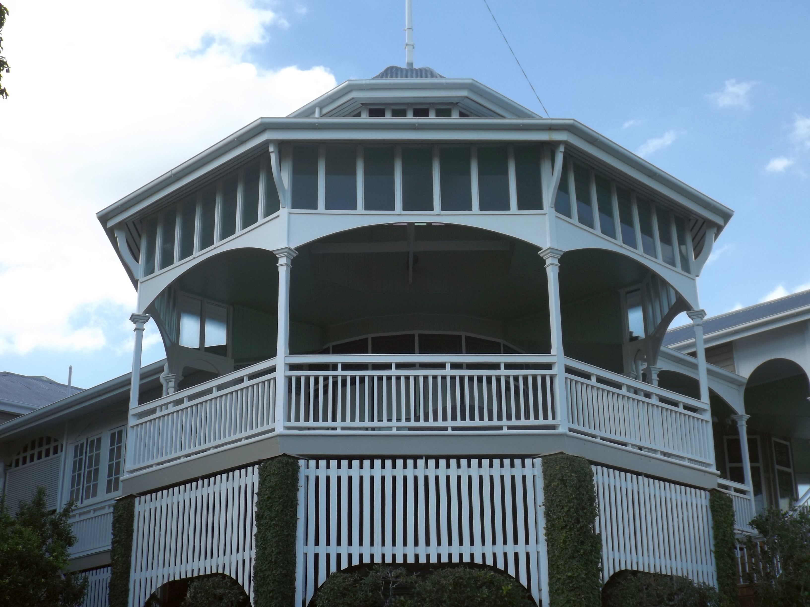 Photo of Cremorne residence at Hamilton, Brisbane, Queensland, Australia.